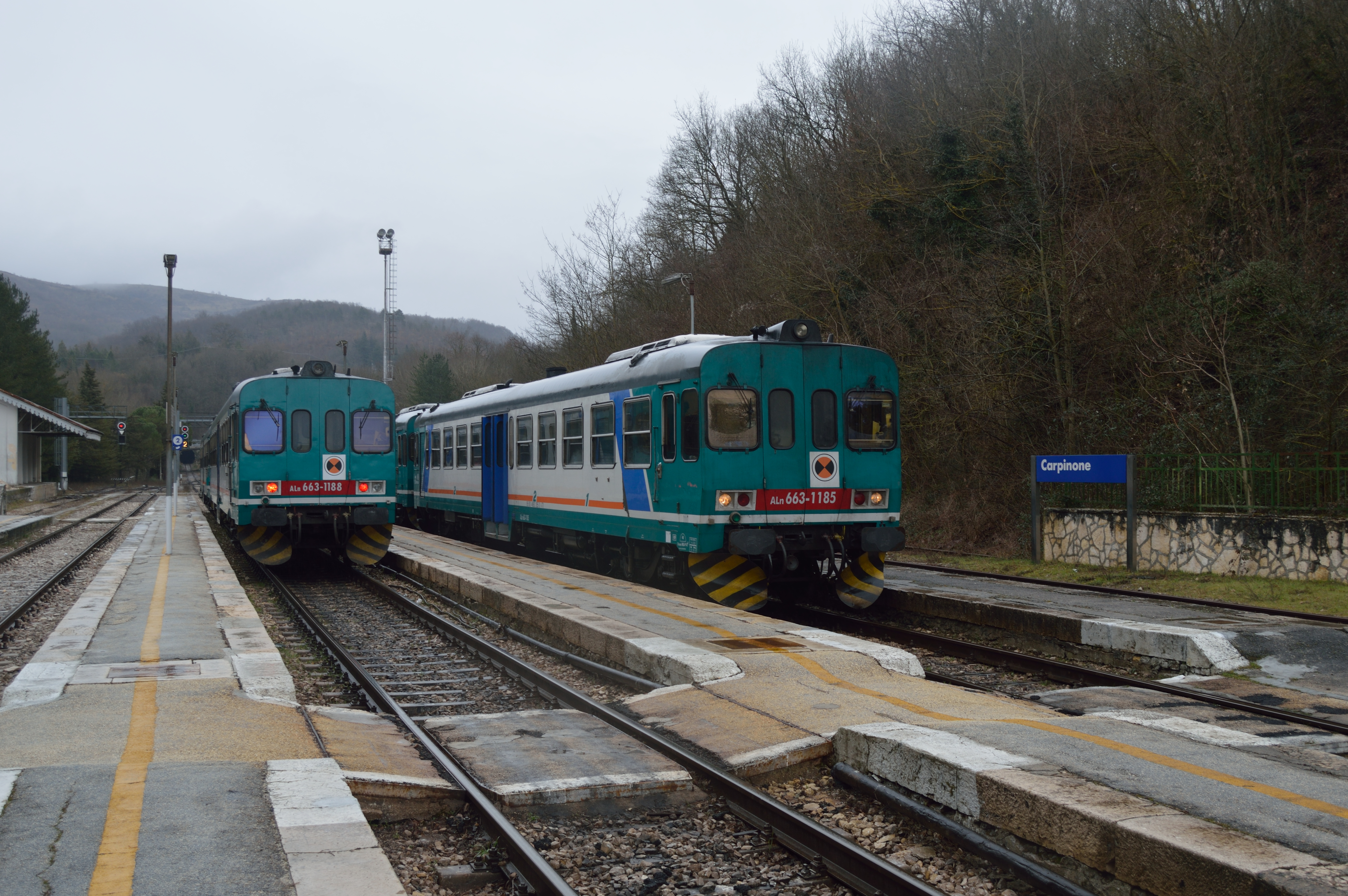 ALn663 railcars meet at Carpinone station on 27 February 2015. On the left is ALn663.1188 closest to the camera and ALn663.1153 in front. This was working the late running train R3486, 14:10 Napoli Centrale to Campobasso. To the right leading is ALn663.1185 with train R8105, 15:45 Campobasso to Caserta.